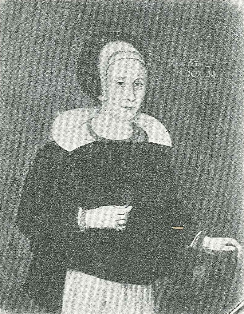 Margaretha Hansdotter (Burea or Zebrozyntia/Säbråzynthia) (1594-1657), known as "Stormor i Dalom".